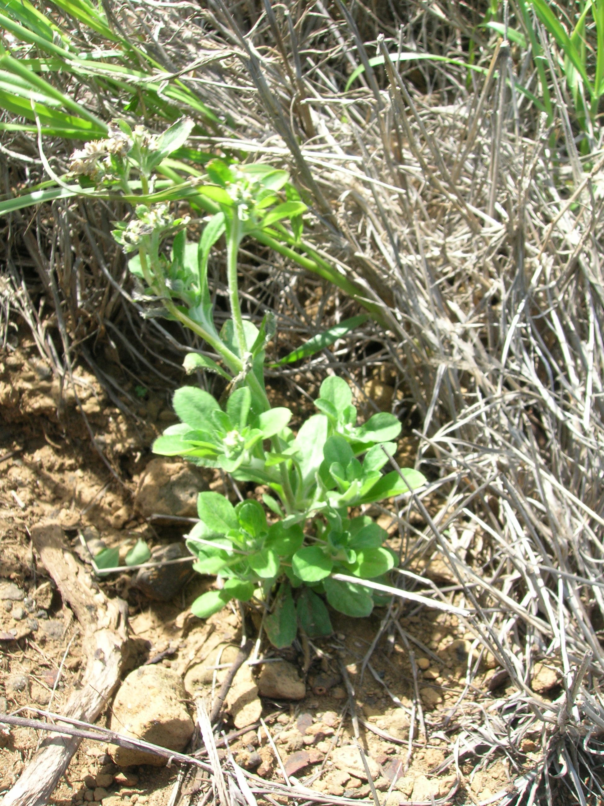 Gamochaeta purpurea (habit). Location: Maui, Molokini